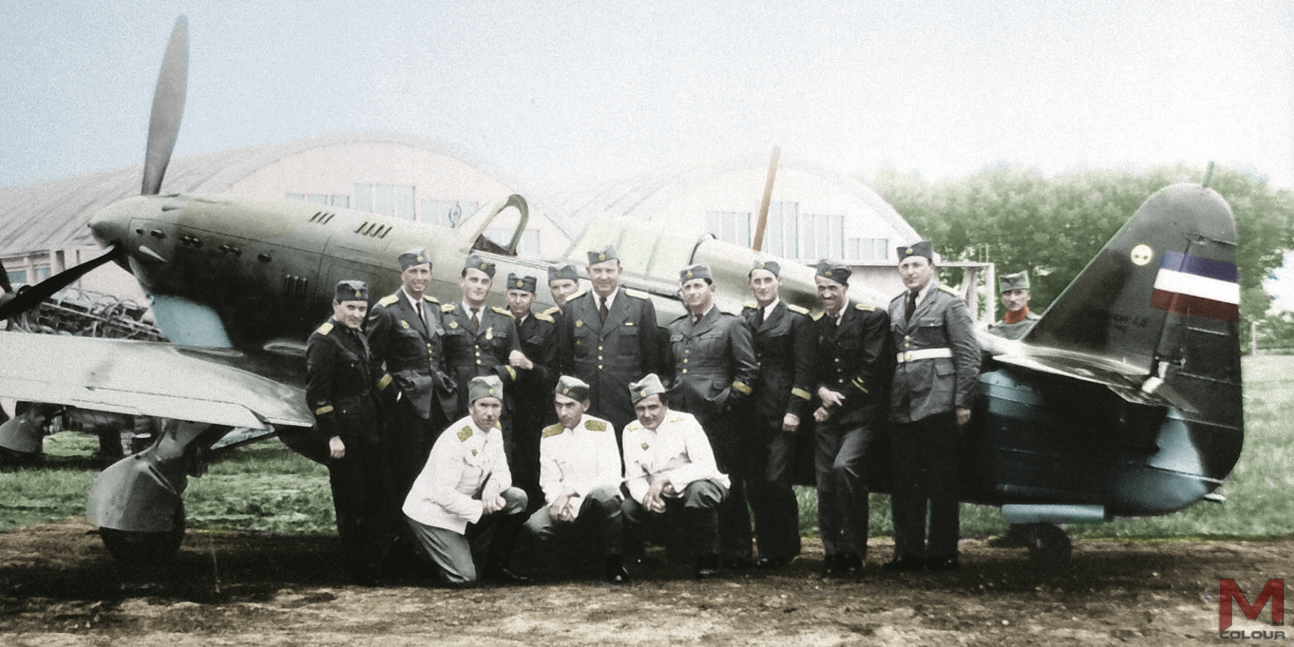 Colored picture of Royal Yugoslav Air force officers